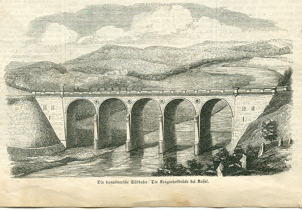 The Kragenhofbridge at Kassel